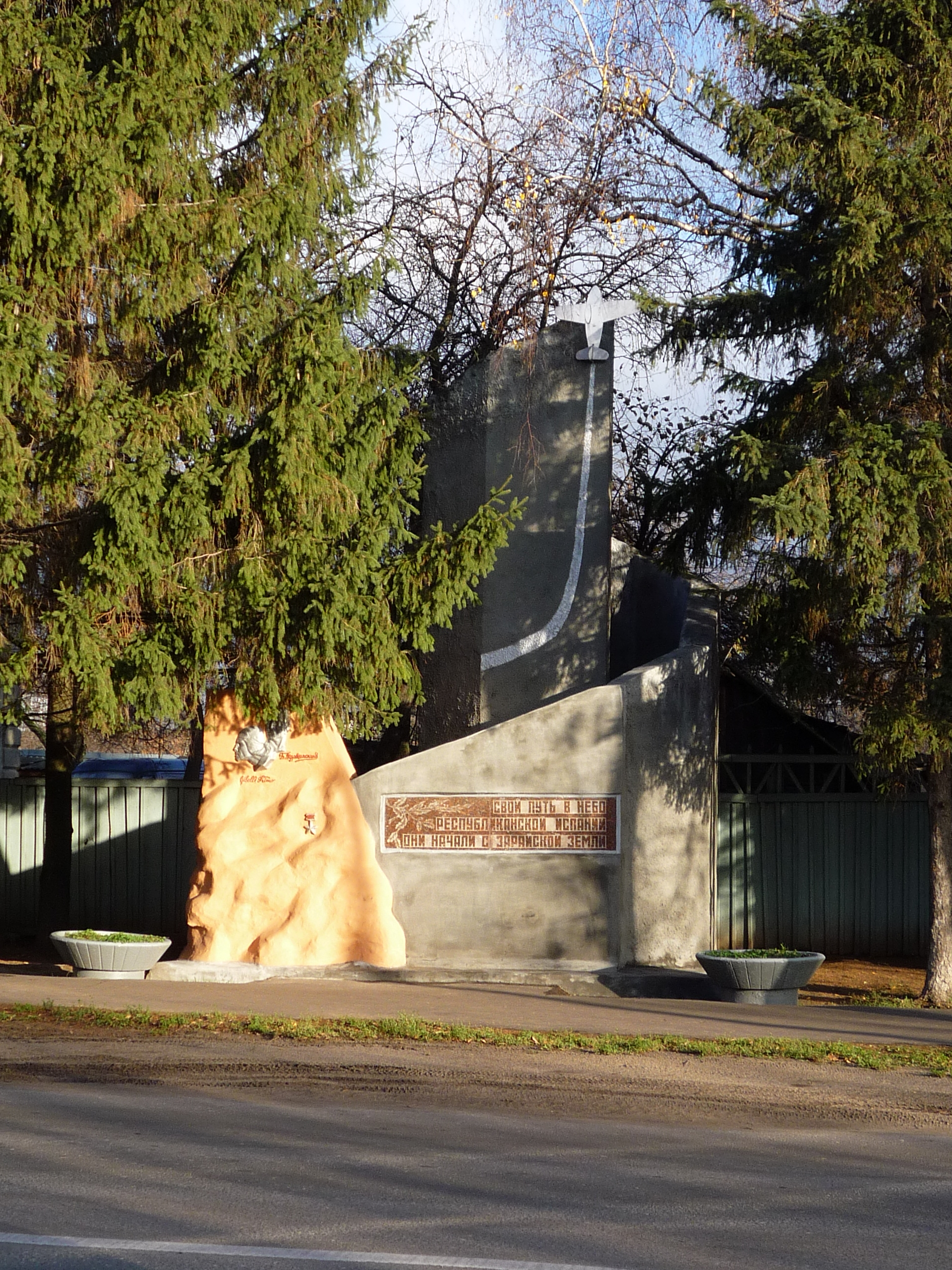 Obelisk to pilots Turzhansky and Gibelli in Zaraysk, Russia